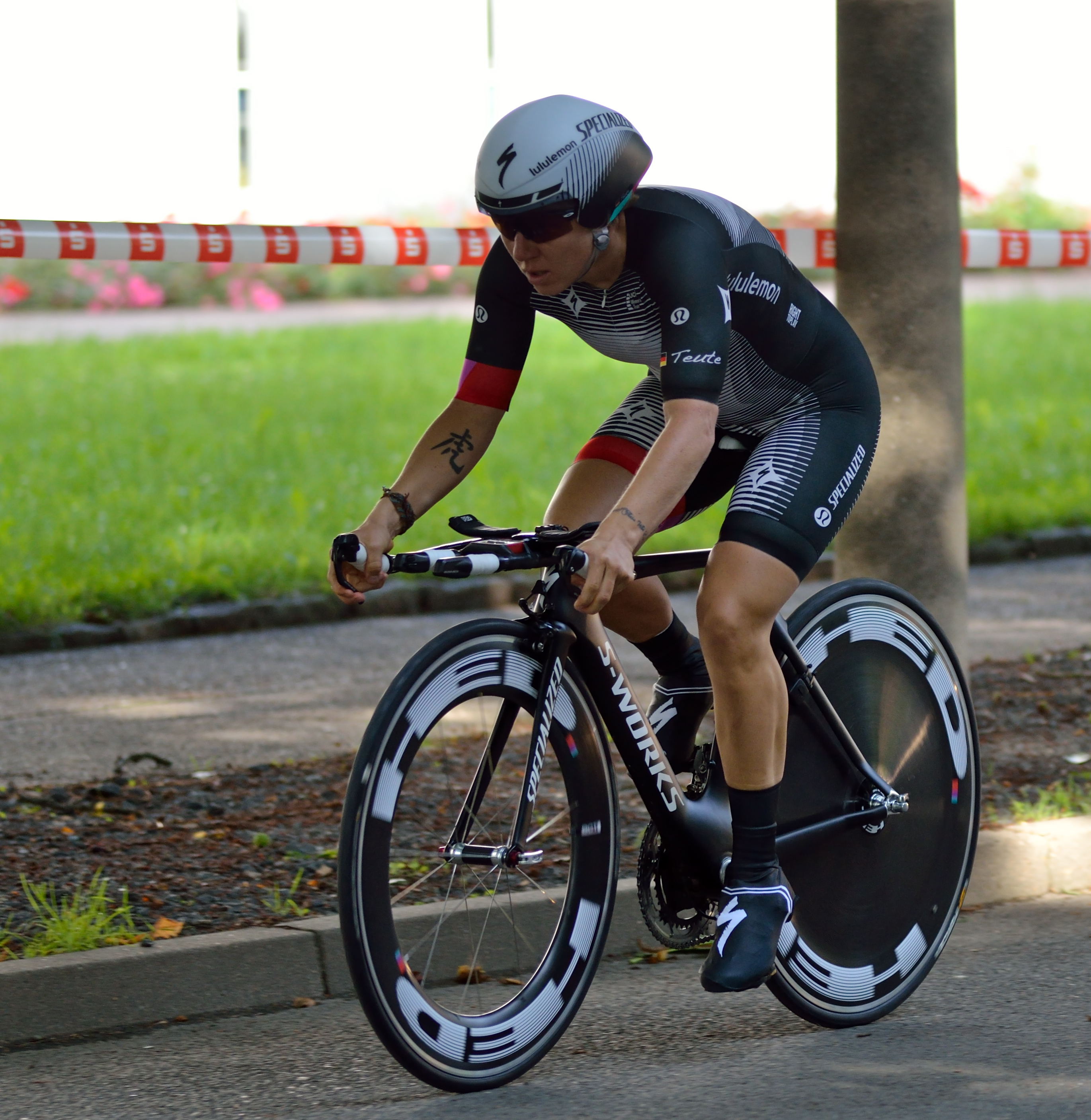 Ina-Yoko Teutenberg from the Specialized-lululemon team during the Women's Tour of Thuringia 2012 in Zwickau, Germany.